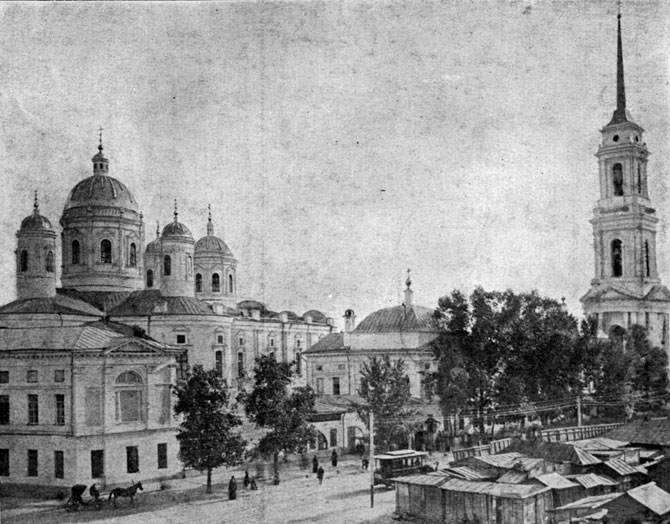 The Blagoveshchensk cathedral. The XX-th century beginning